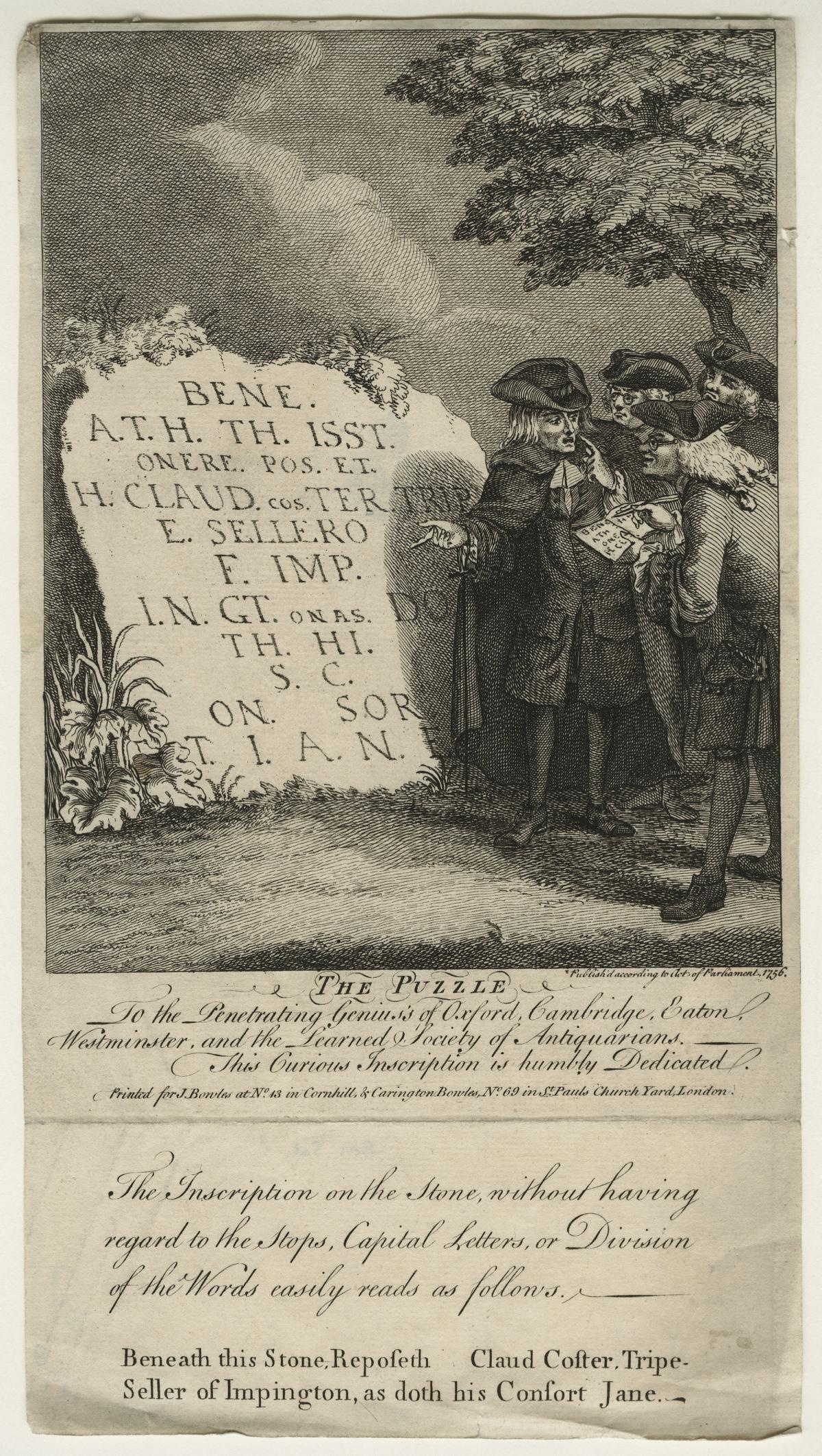 The Puzzle (Gravestone to Claud Coster and Jane Coster with 4 unknown antiquaries), by John Bowles (died 1784), published 1756. All images in this batch have been confirmed as author died before 1939 according to the official death date listed by the NPG.